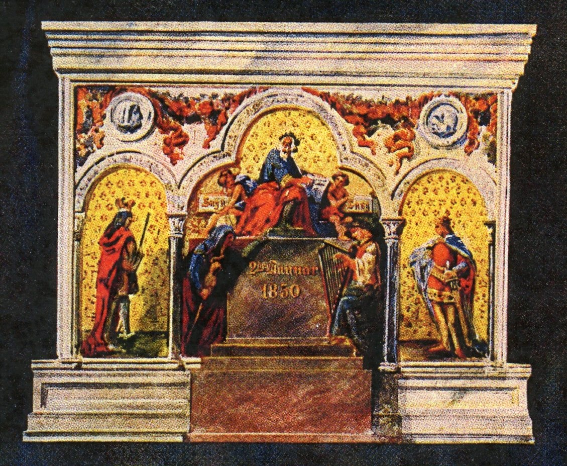 The stage curtain at the Norwegian theater in Bergen.